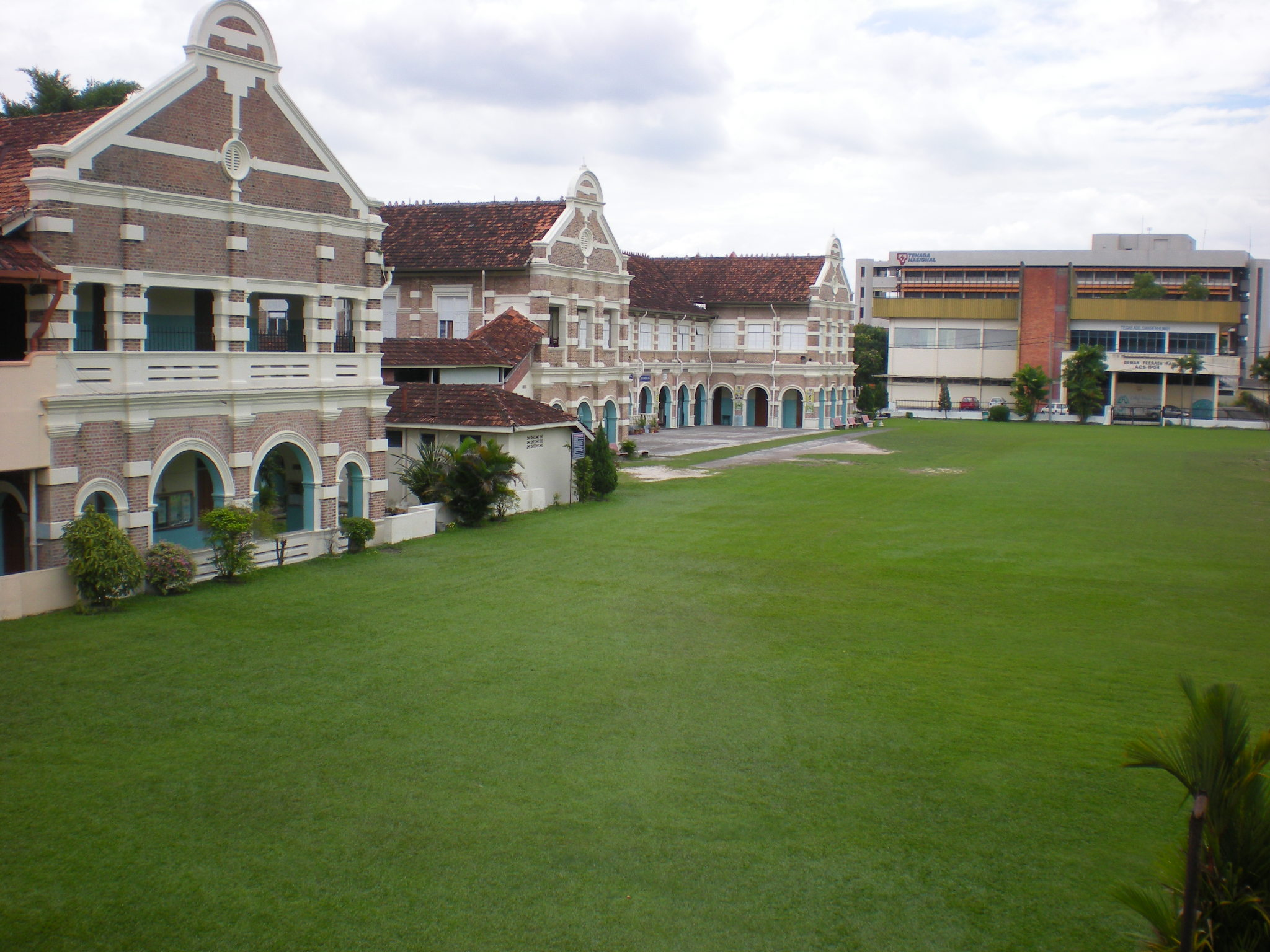 Acs IPoh main building